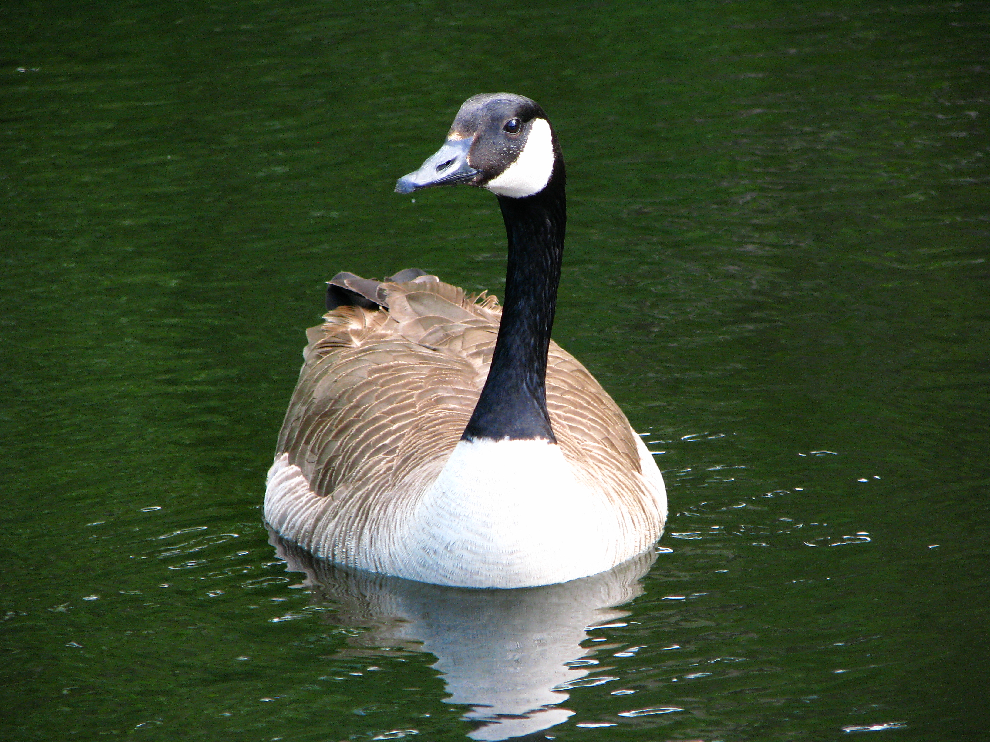 A Canada Goose swimming at Smythe Park, Toronto, Canada.